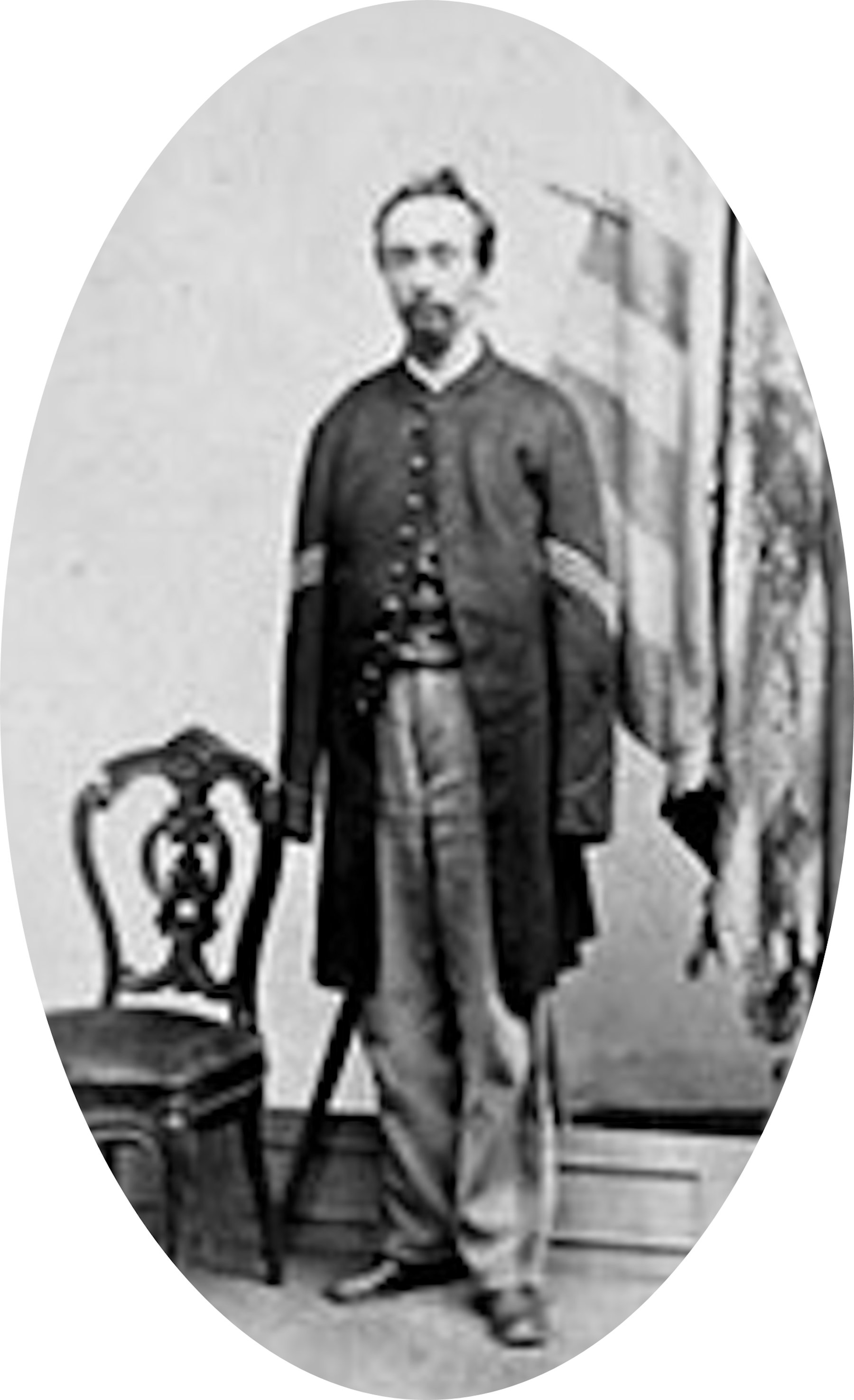 Medal of Honor winner Thomas Plunkett